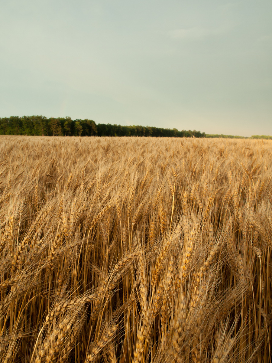 Farm field at Blackwater National Wildlife Refuge. Credit: USFWS